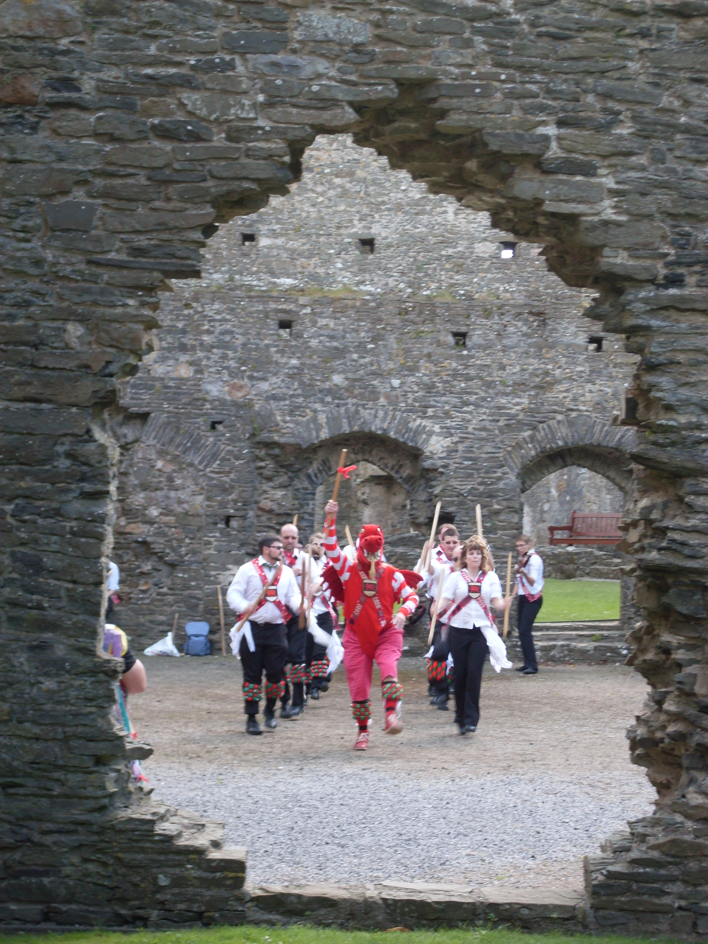 Cardiff Morris Kidwelly Castle